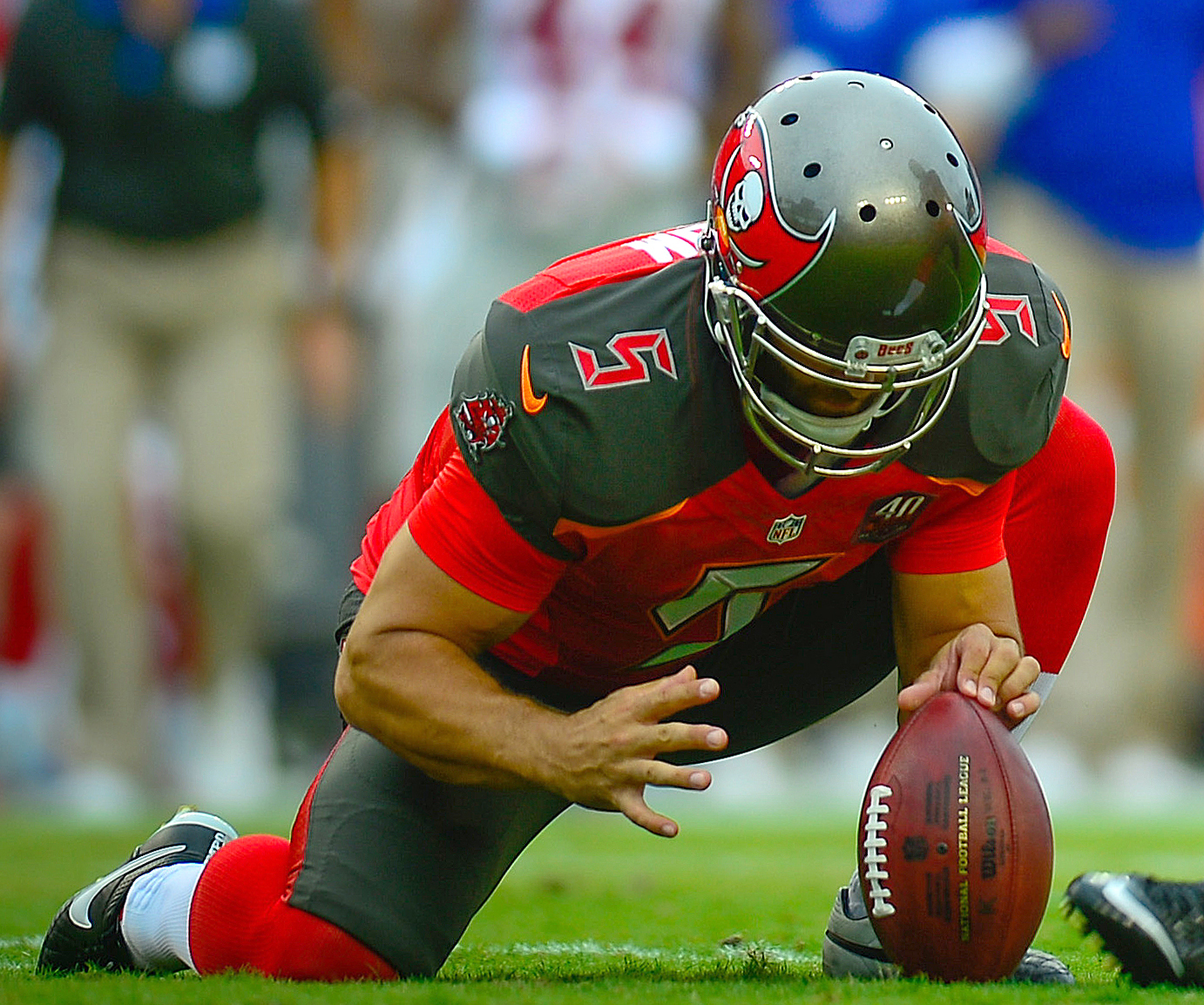 Connor Barth, a placekicker for the Tampa Bay Buccaneers, prepares to kick a field goal during the first quarter of the Bucs v. New York Giants National Football League military appreciation game at Raymond James Stadium in Tampa, Fla., Nov. 8, 2015. Military members from the Tampa Bay area were invited to a USO-sponsored pregame tailgate and given front row tickets to the game.